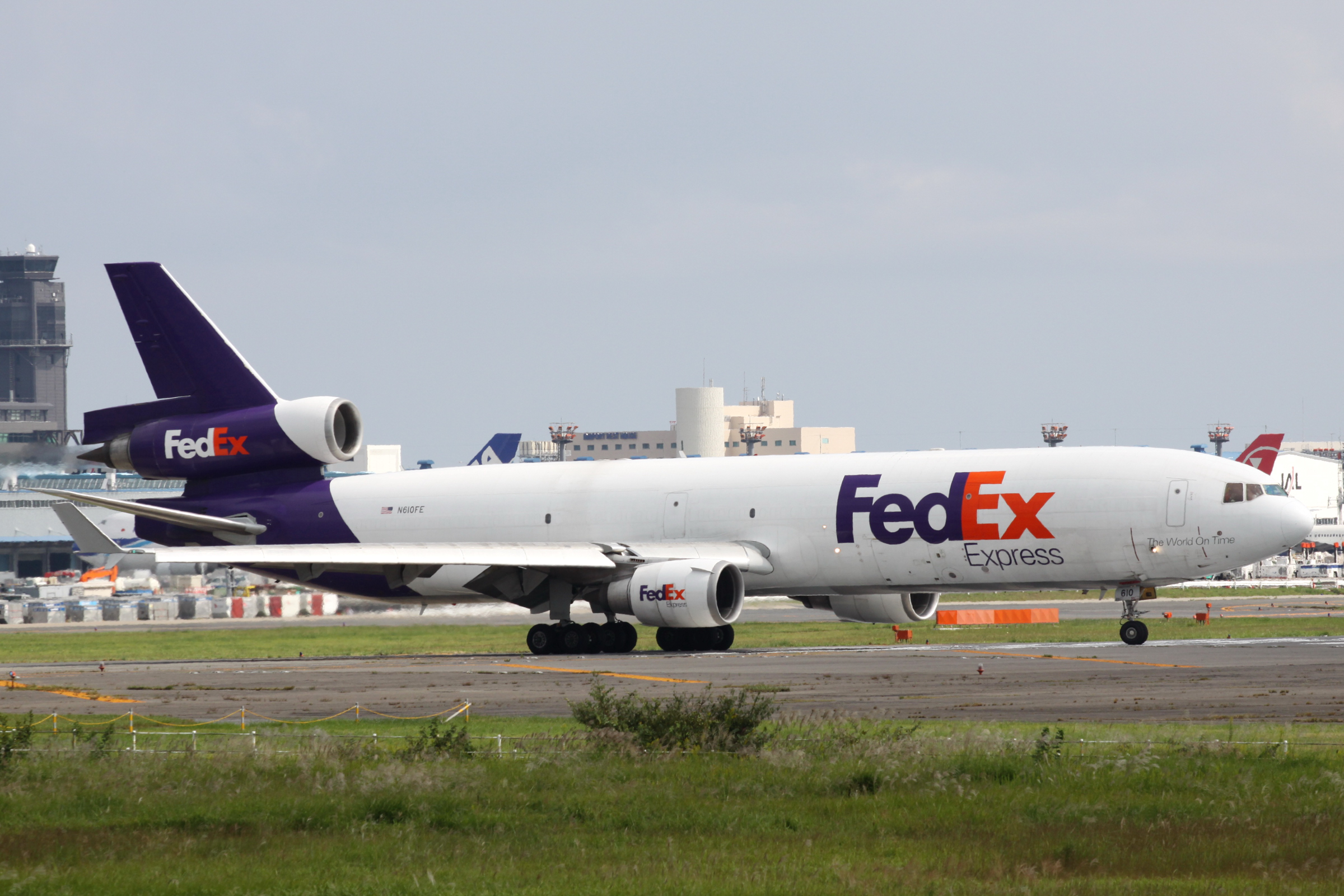 N610FE lining-up on Runway 16R, Narita International Airport